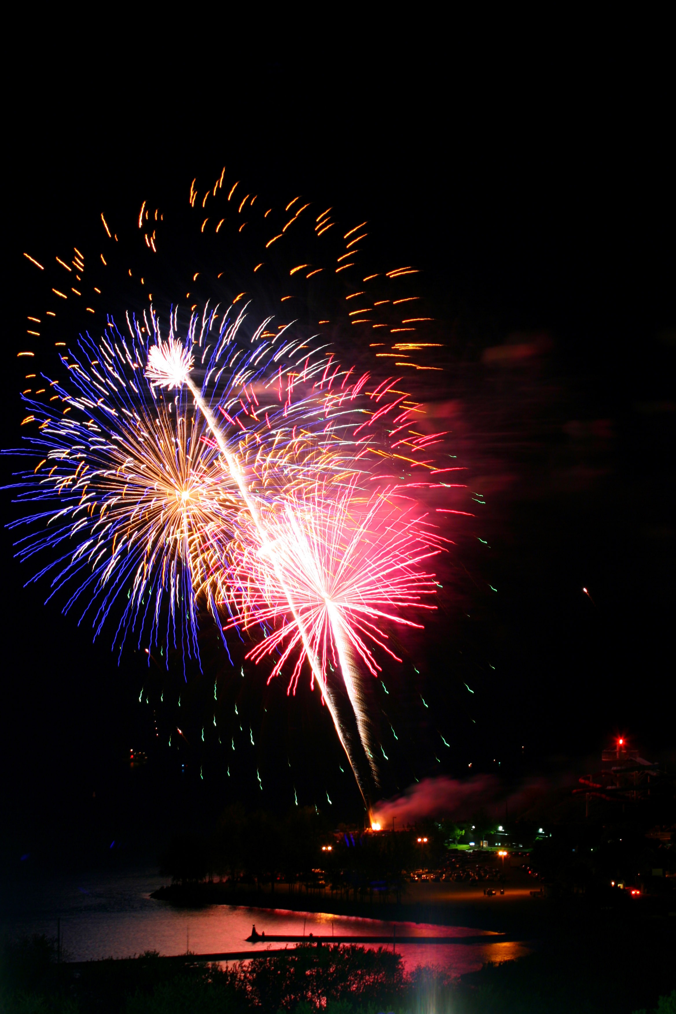 Fireworks over Lake Ontario in Toronto on Victoria Day.